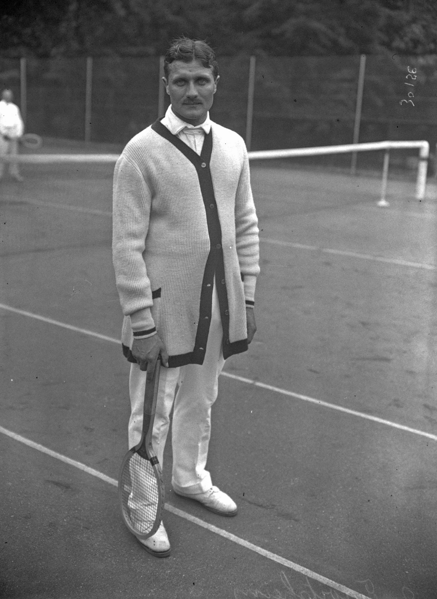 German tenis player Otto Froitzheim at the 1913 World Hard Court Championship (WHCC)